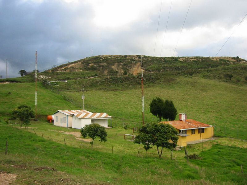 Primary Seismic Station PS14 El Rosal, Colombia